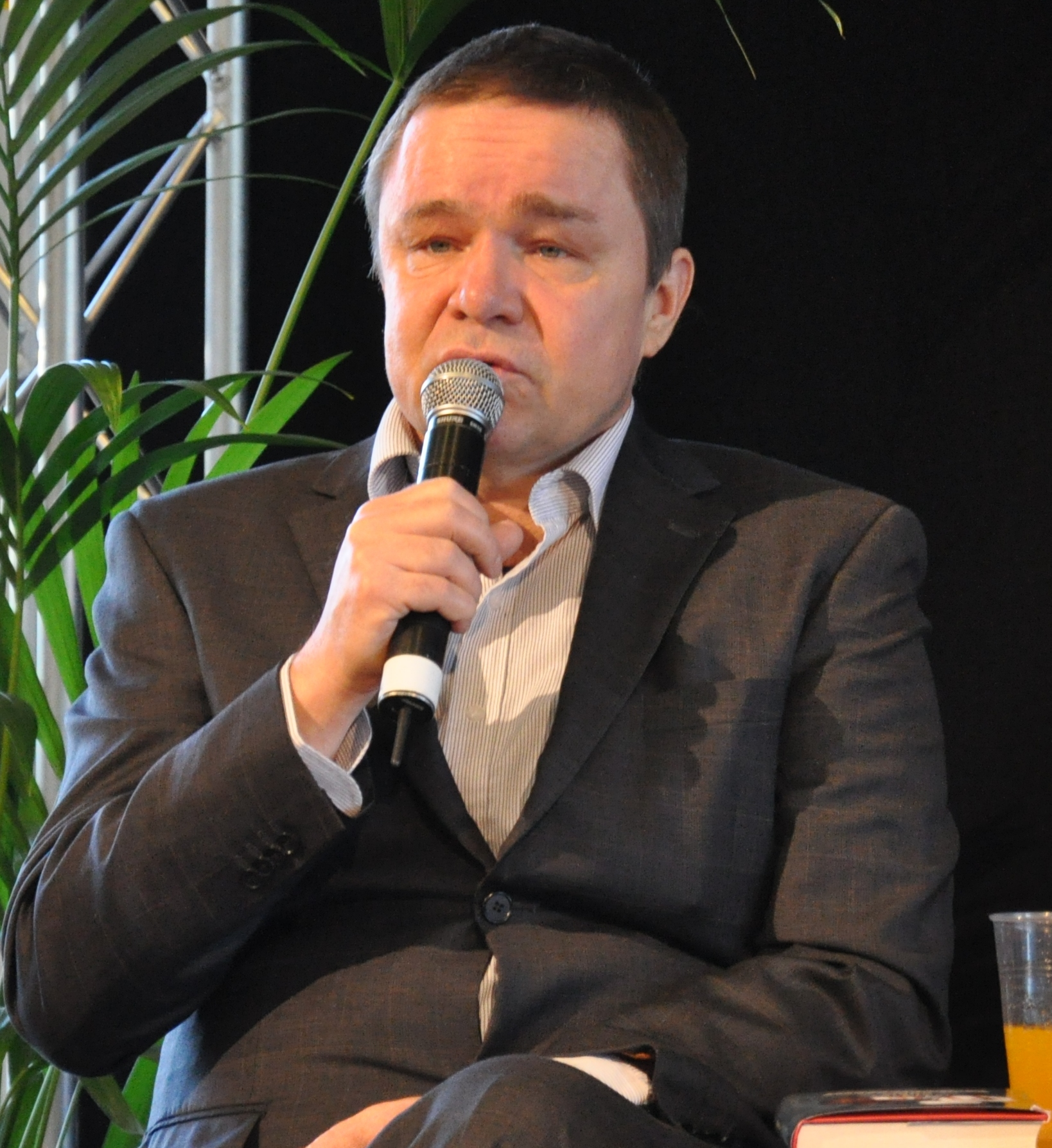 Finnish writer Kari Levola at the Turku Book Fair 2009.